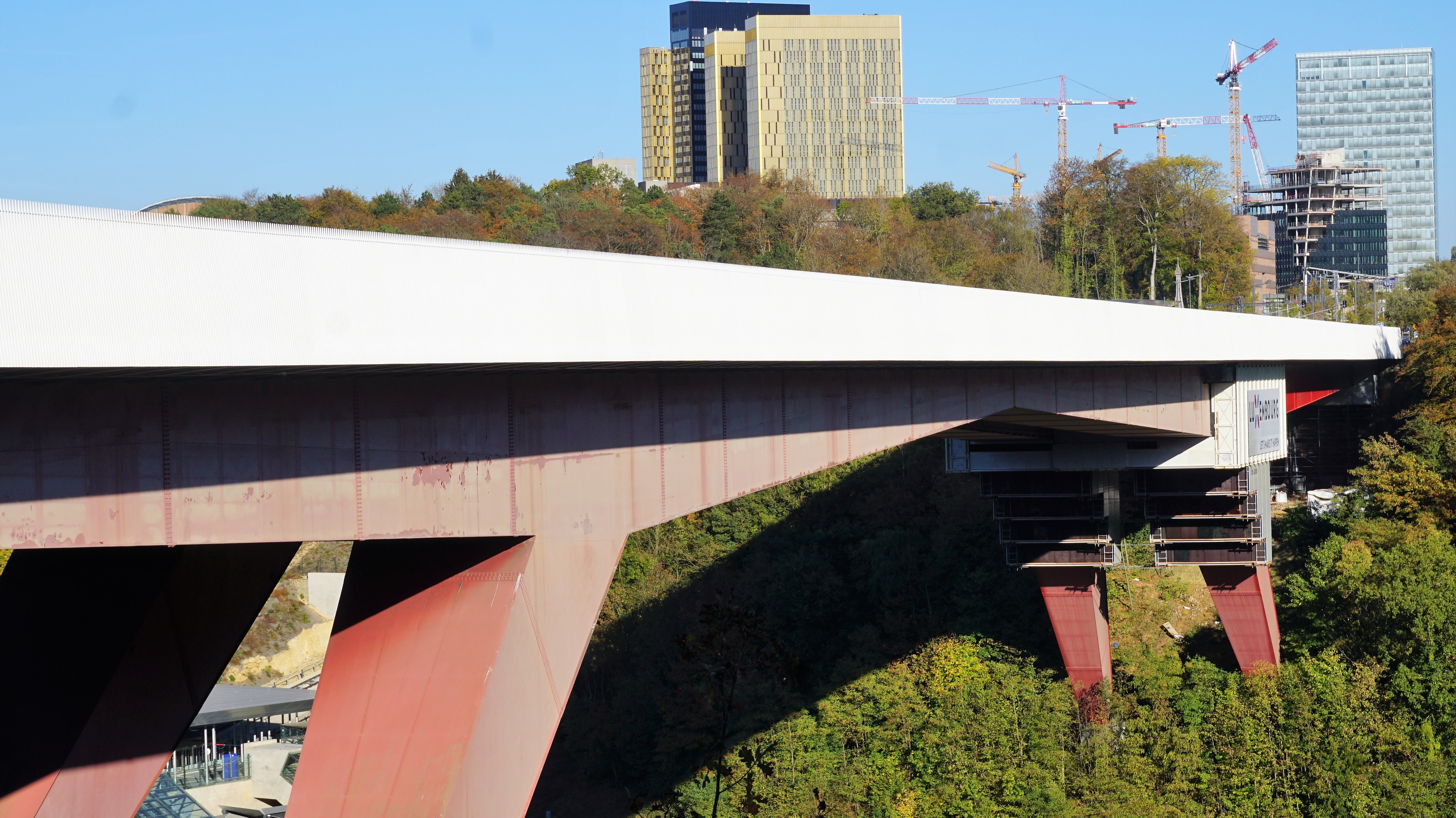 View of the southern side of the Grand Duchess Charlotte Bridge, taken from the Luxembourg plateau during the 2015-2018 renovation work. A new coat of its distinctive red paintwork is being applied.